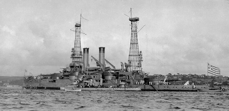 Greek battleship Lemnos and torpedo boat Dafni at Constantinople (today İstanbul) 1919.